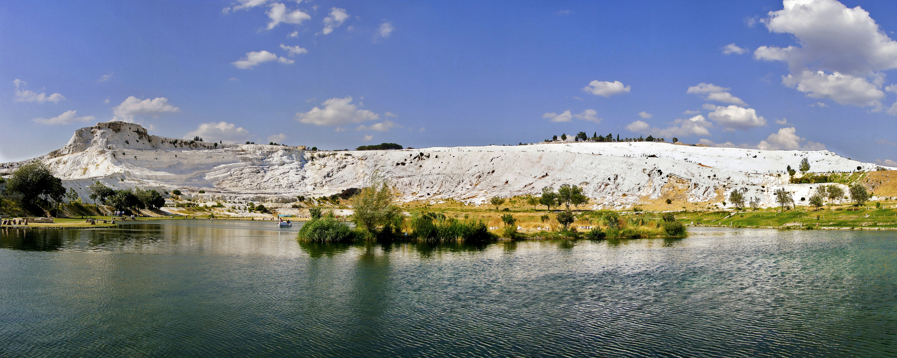 Panoramic view of Pamukkale, Turkey